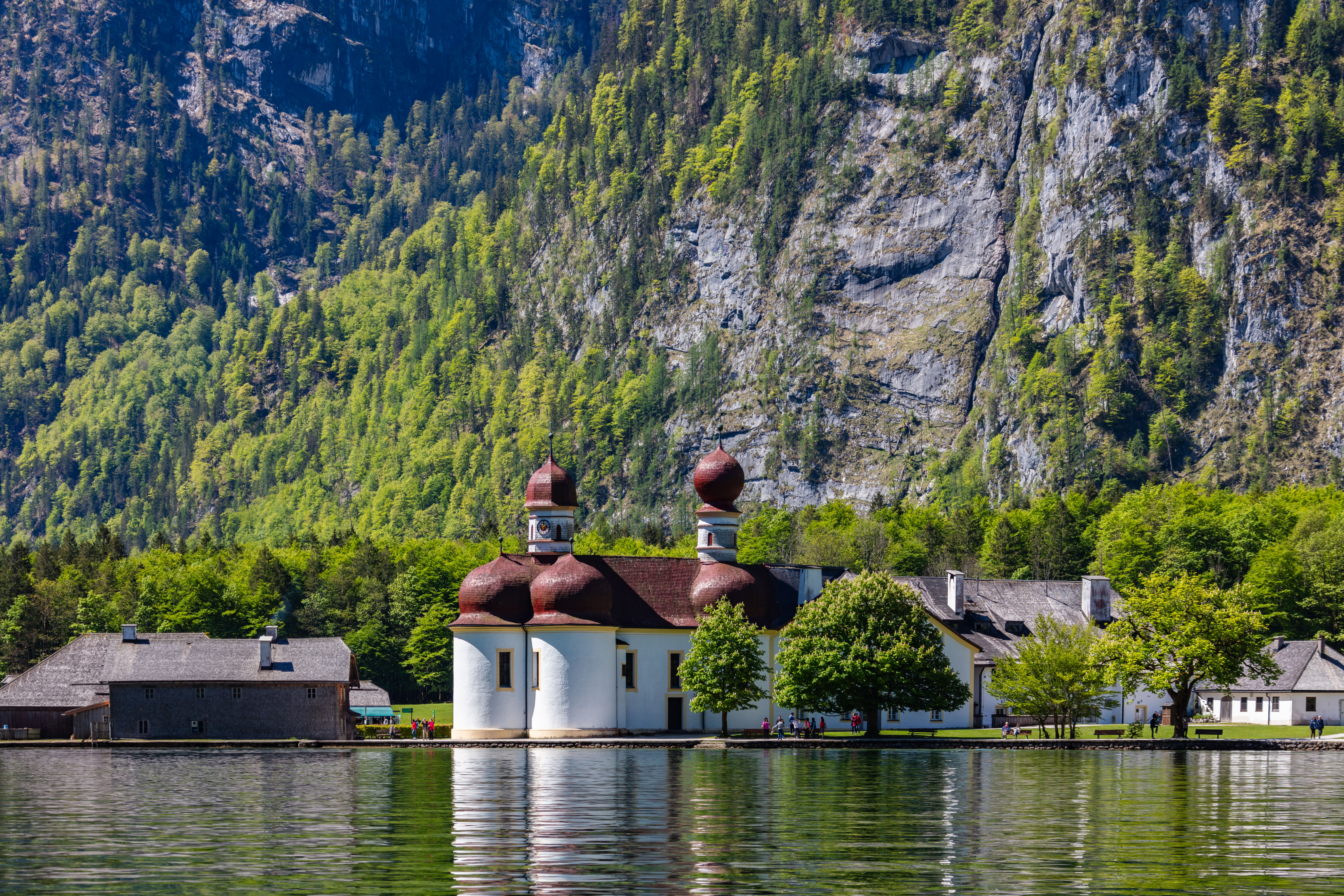 St. Bartholomew's Church, Königssee, Germany